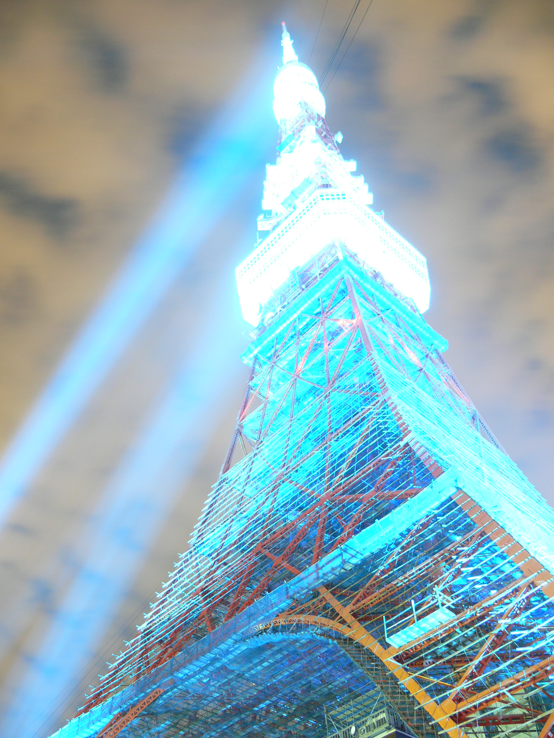 Taken on 11/14/07 under the blue lights for world diabetes day. Tokyo Tower.